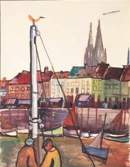 The harbour of Ostend. Painting by Felix Nussbaum